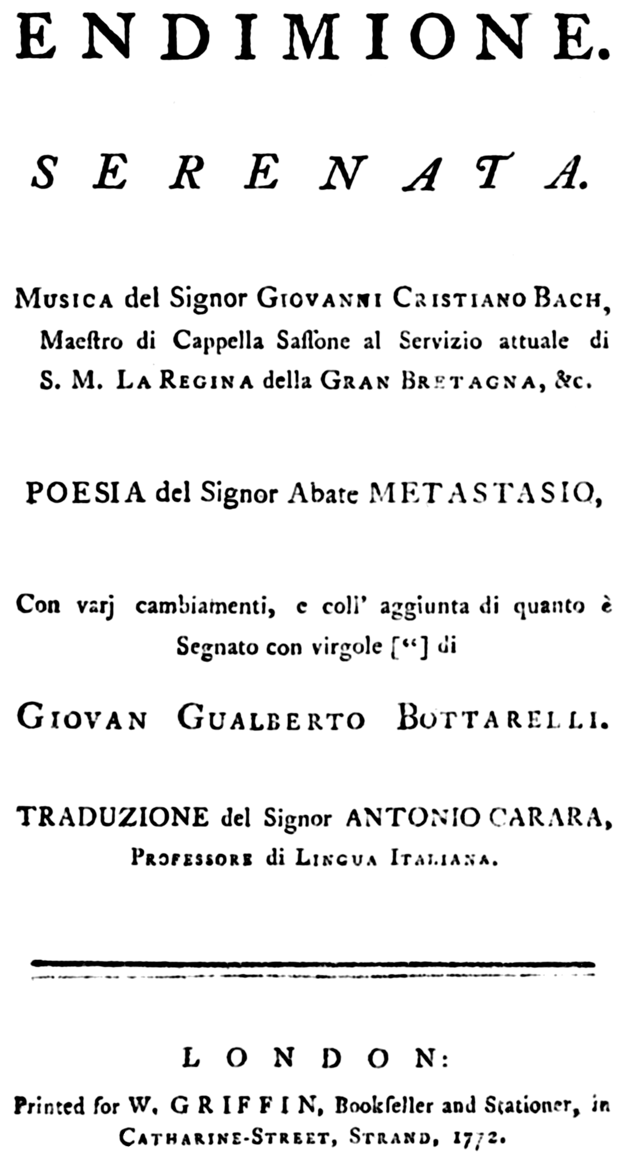 Johann Christian Bach - Endimione - title page of the libretto - London 1772